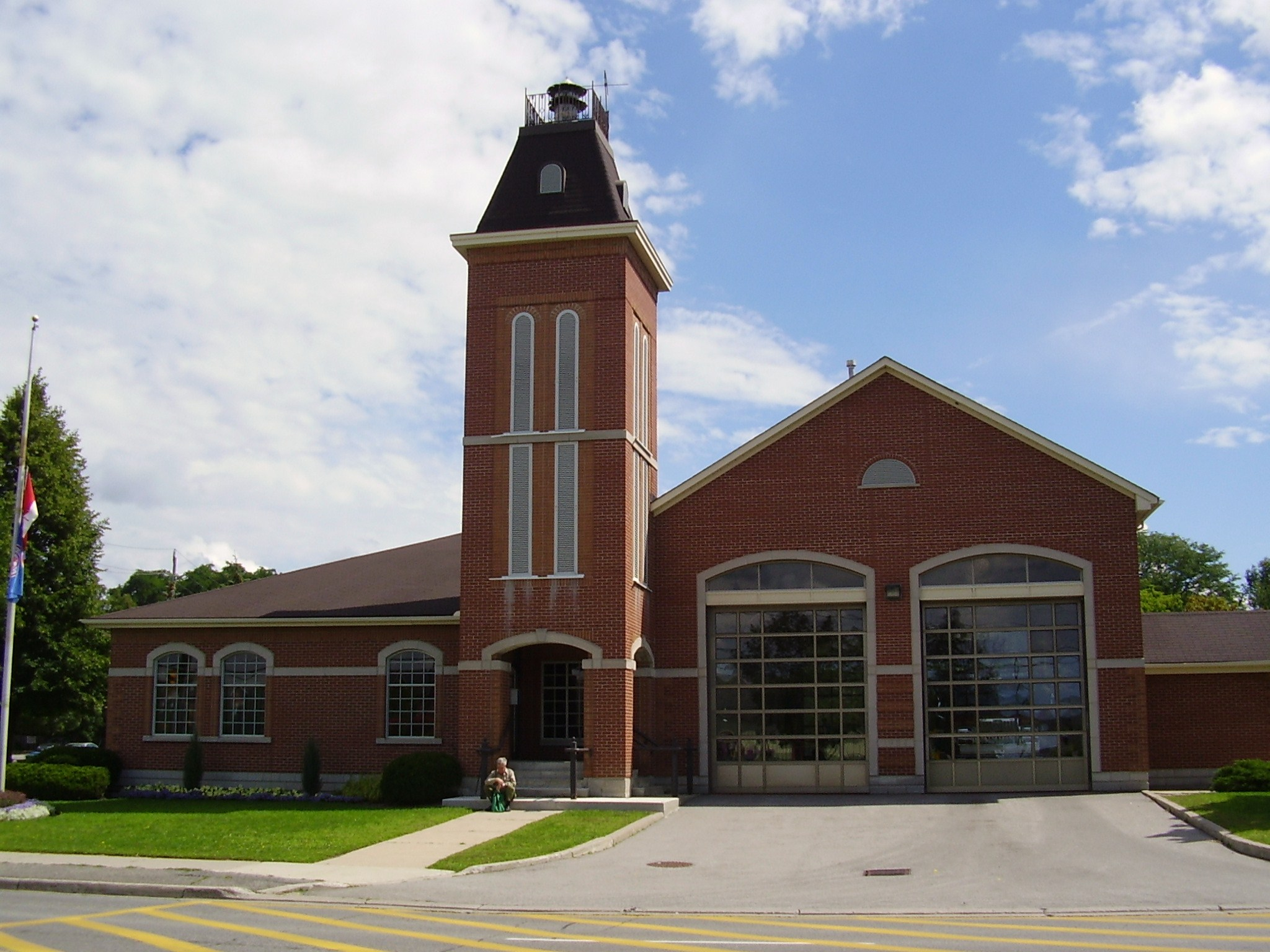 Una estacion de bomberos de Markham en Markham Rd